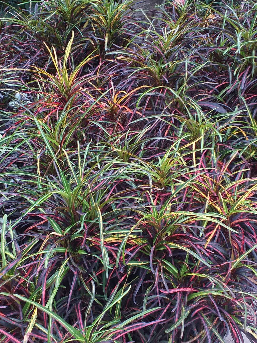 Codiaeum variegatum var. pictum f. taeniosum, 2018 Taichung World Flora Exposition